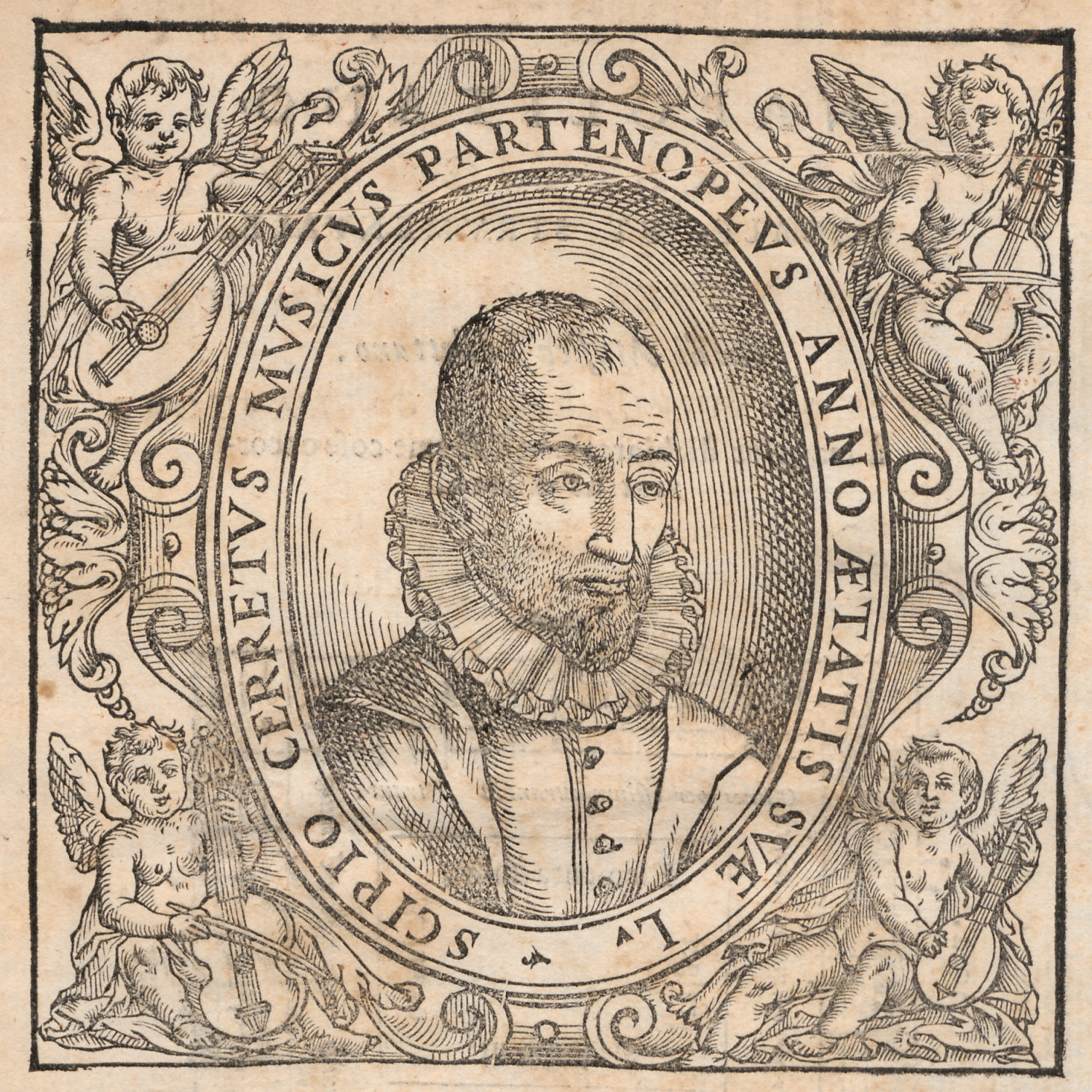 Portrait of the Italian theorist, composer and lutenist Scipione Cerreto